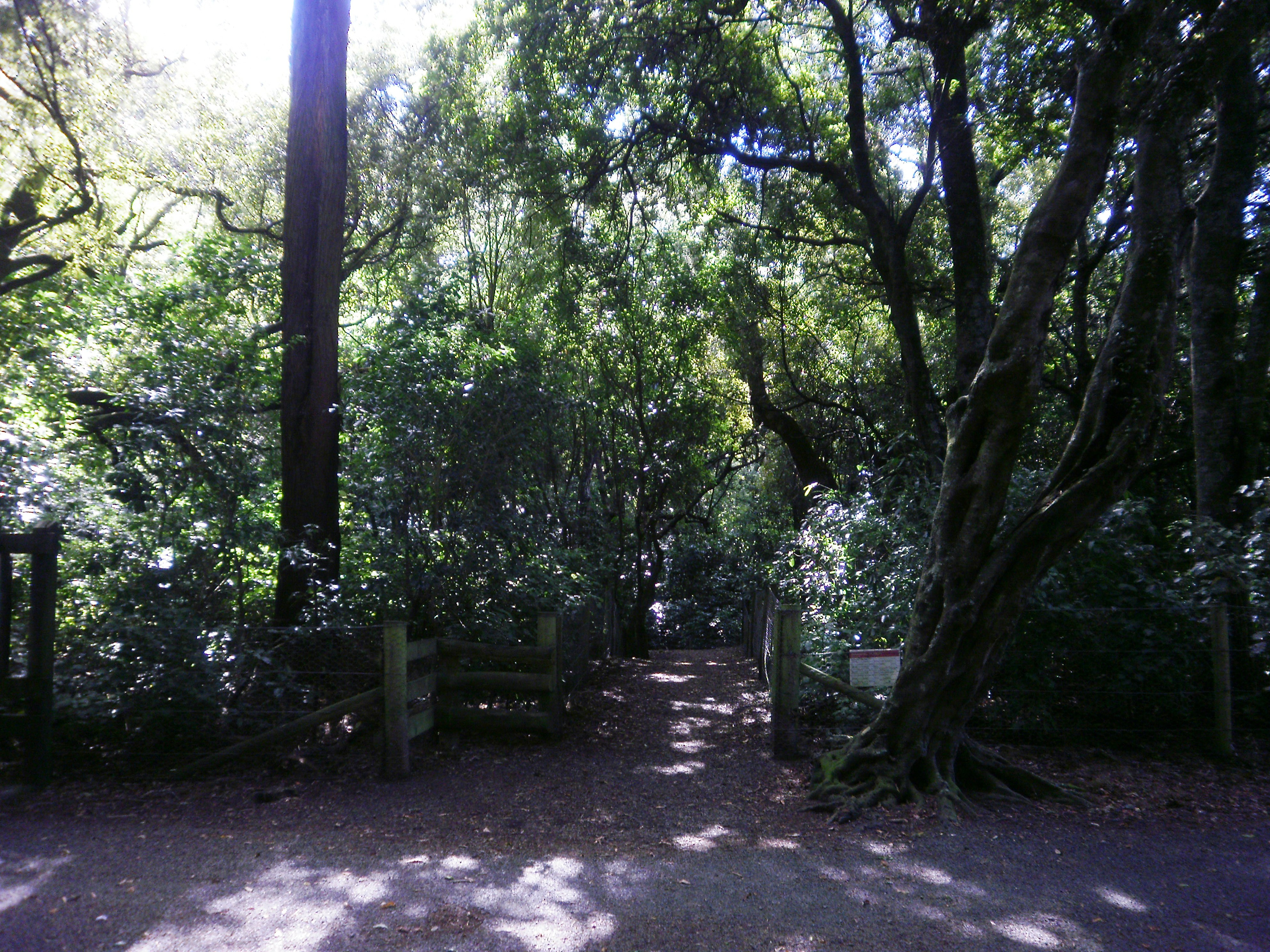 An entrance to Barton's Bush in Trentham Moemorial Park, Upper Hutt, New Zealand